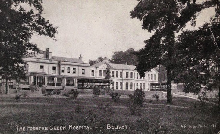 Old photograph of Forster Green Hospital